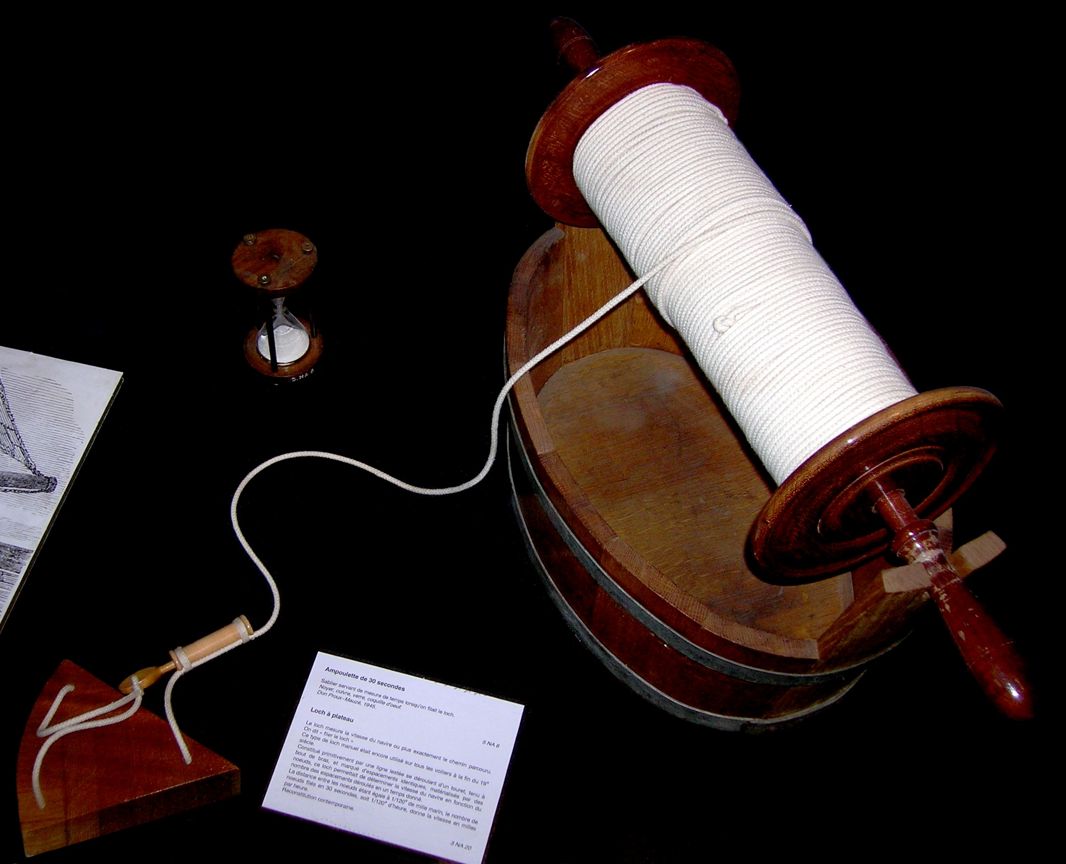 Enhanced version of Image:Loch à plateau.jpg to brighten and bring out background detail. Also attempt to remove reflections on the glass that is in the foreground (original photo is of the ship log appears to have been taken through a display case)